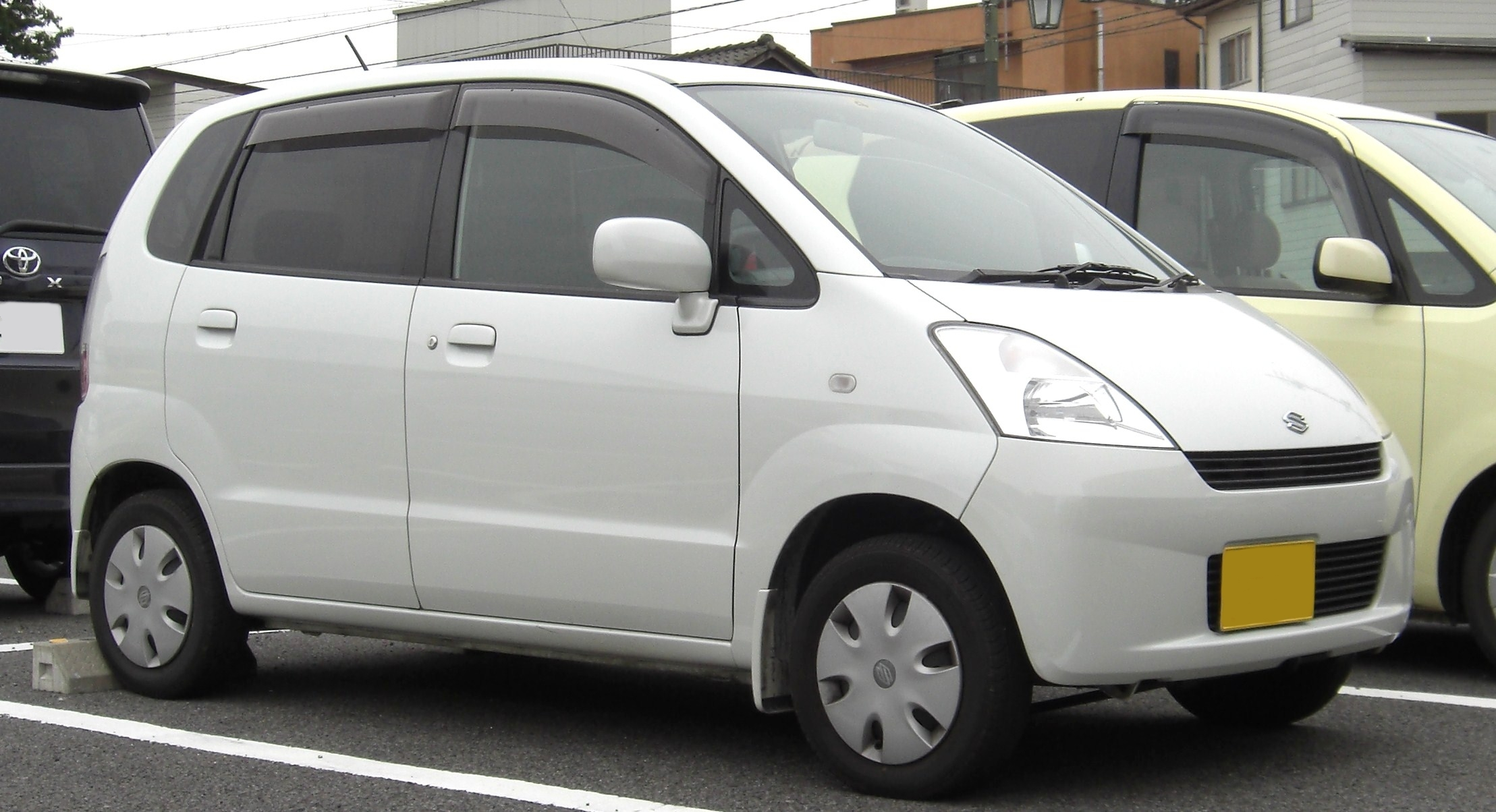 Suzuki MR Wagon